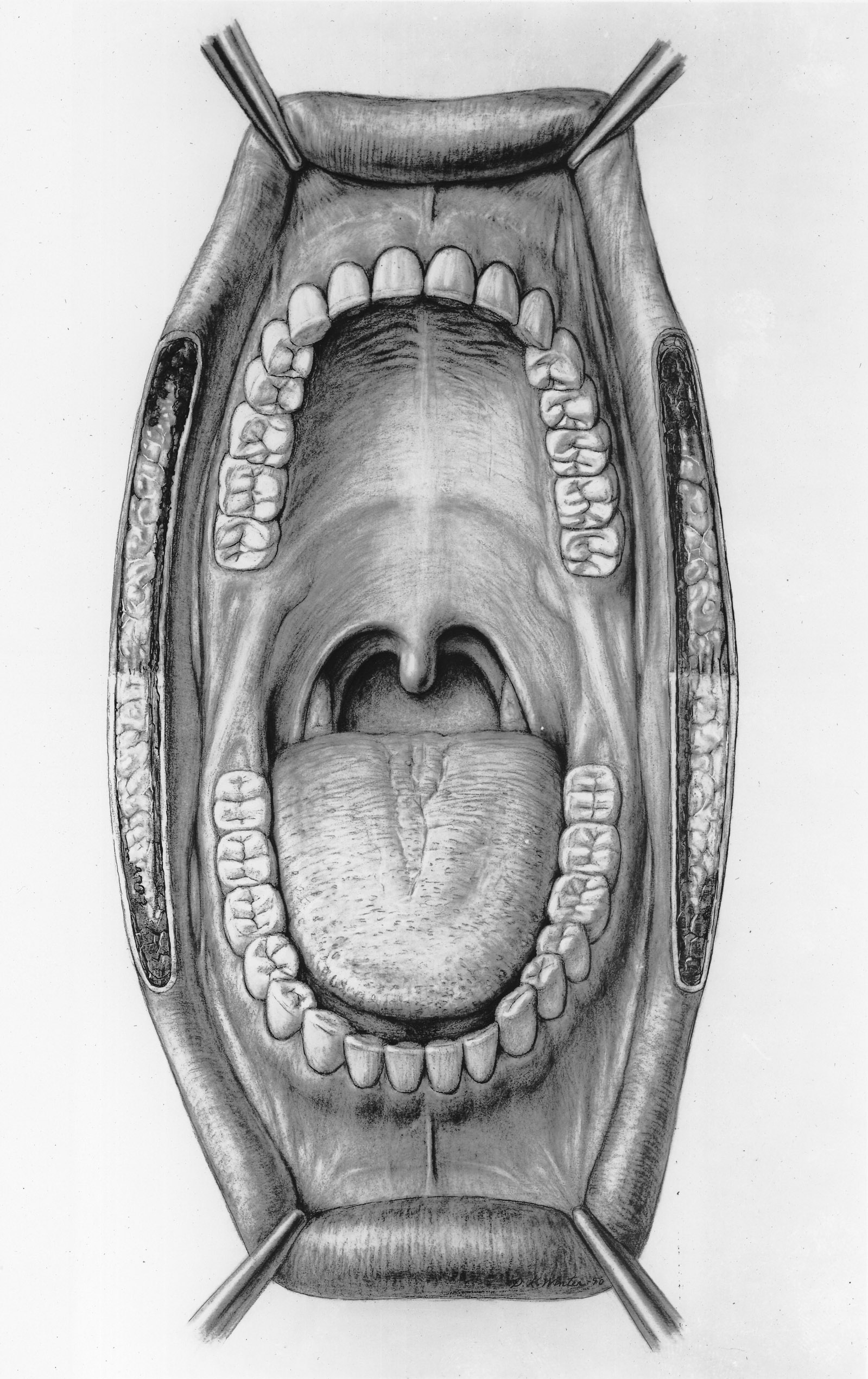 Medical illustration of a human mouth by Duncan Kenneth Winter. Part of an unpublished manuscript on medical illustration written by Winter.